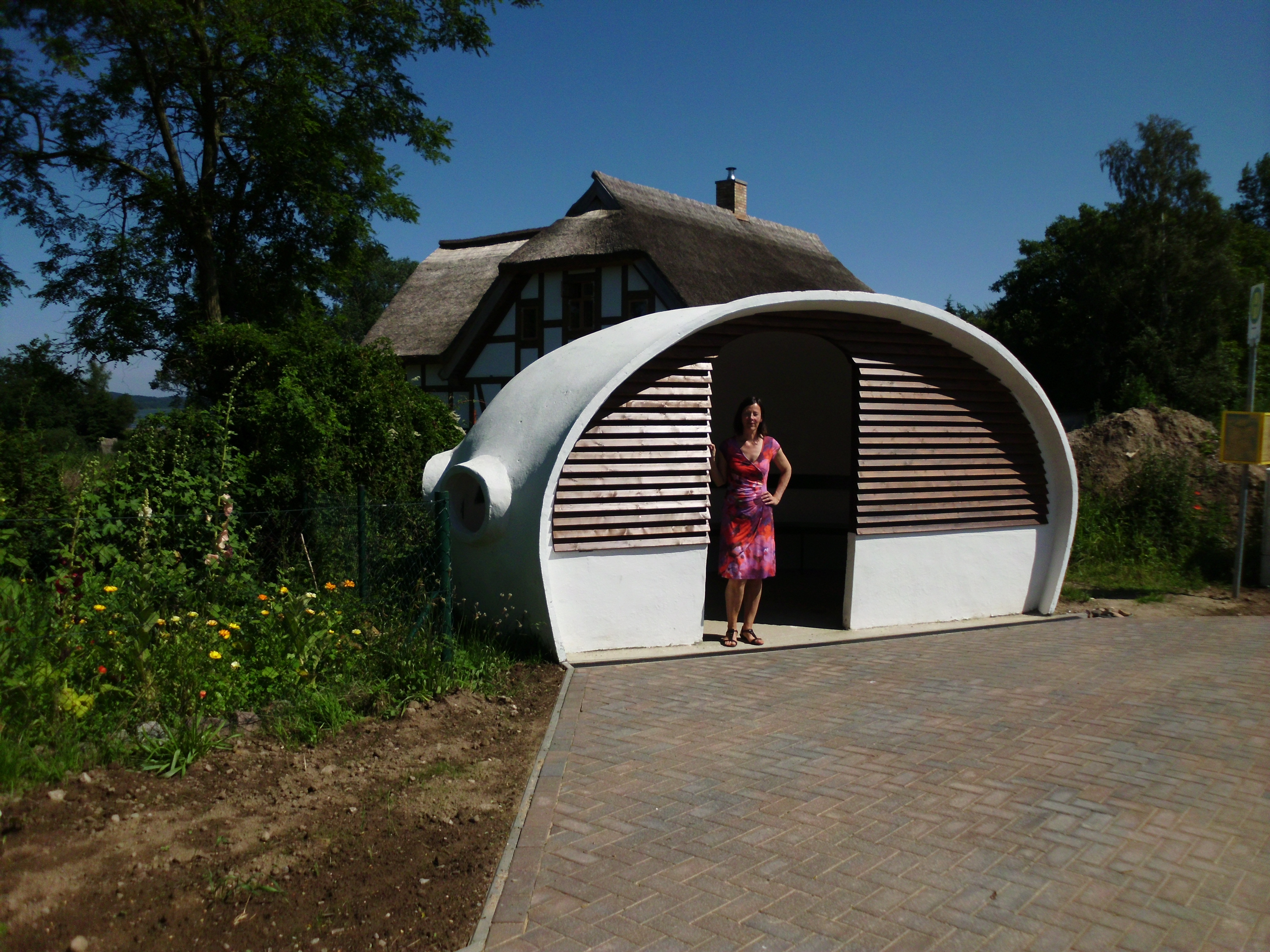 Bus Stop in Buschvitz on Rügen Island, Germany, designed by Ulrich Müther